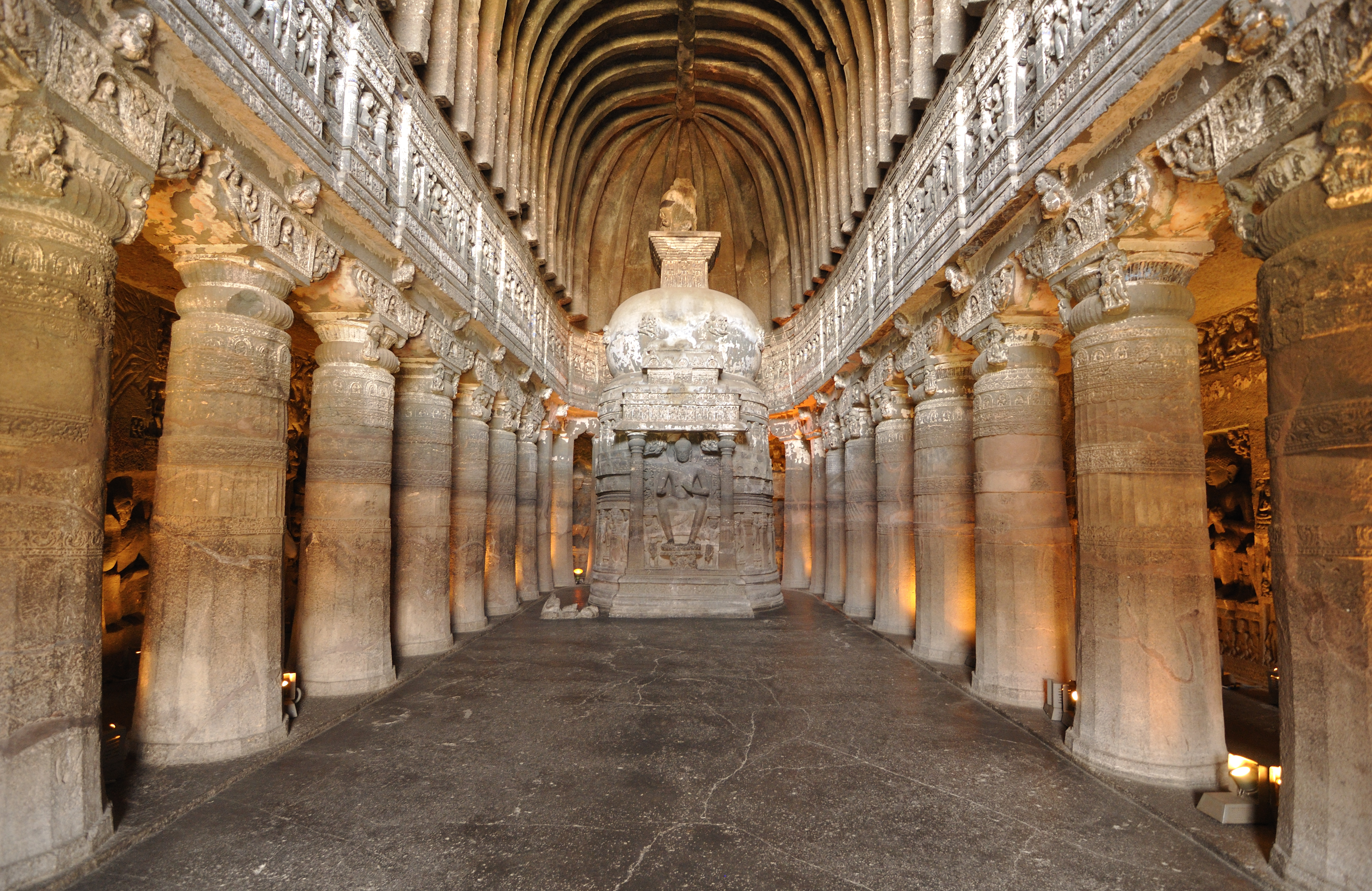 This is a view of Cave 26, which is a Buddhist "Chaitya Griha" or prayer hall. Ajanta Caves in Maharashtra, India is a World Heritage Site.